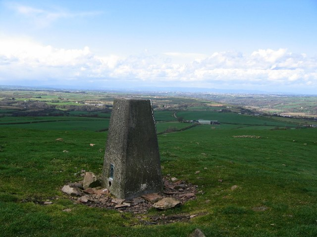 Black Hill, above Lanark, Scotland, is a NTS owned viewpoint. Beyond the trigpoint is a view north across the city of Glasgow to the Campsie Hills.